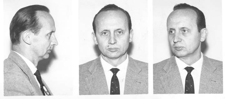 Klaus Dylewski's 1952 mugshot, shortly after his arrest